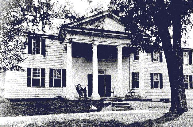 Fort Hill in Clemson, South Carolina. Thomas Green Clemson is sitting on the porch.